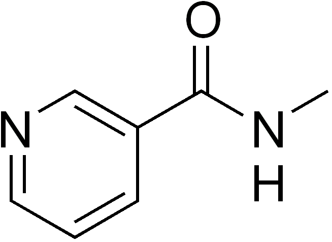 chemical structure of N-methylnicotinamide